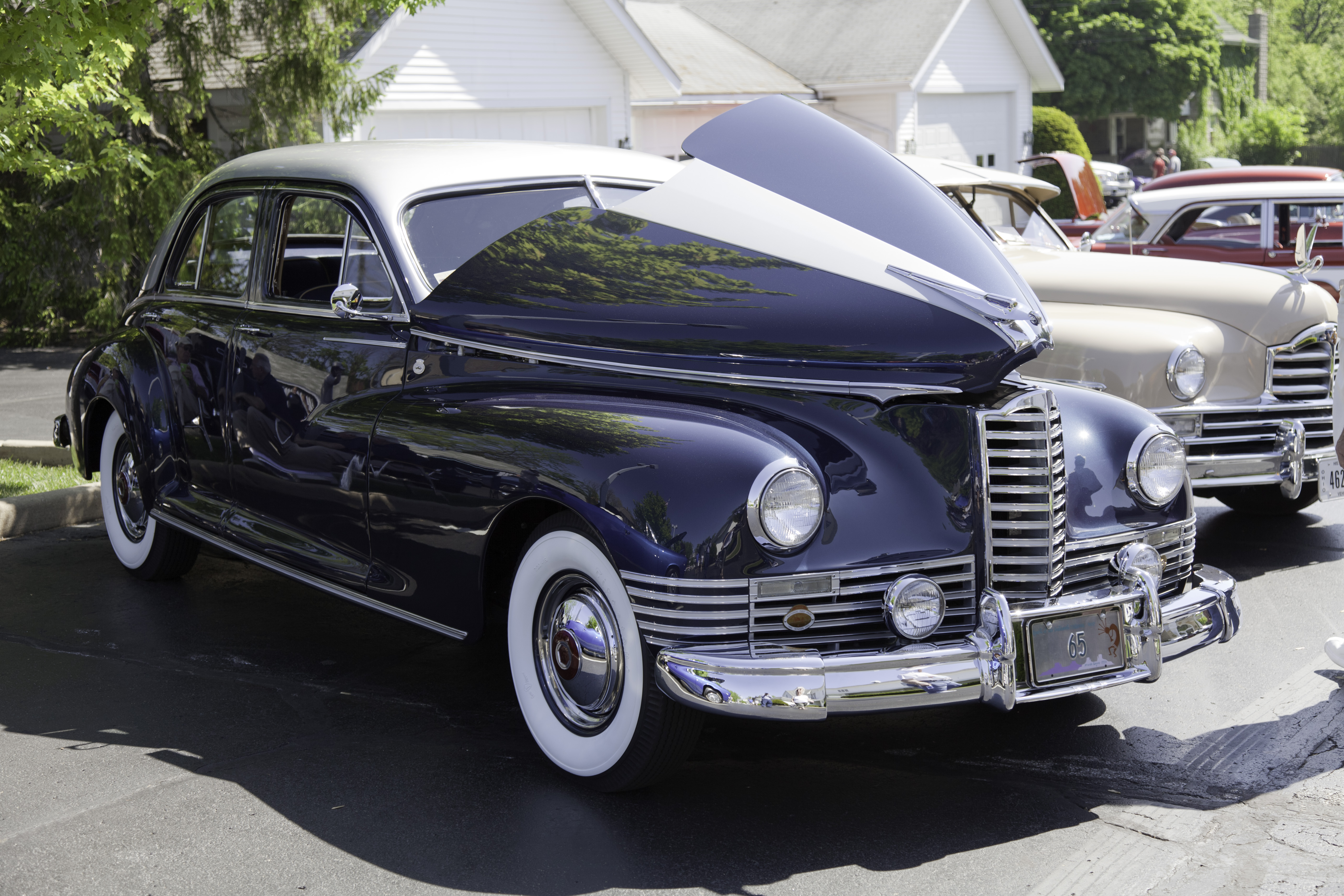 21st series Packard Clipper Custom Touring Sedan model 2106-1622 (1947) at the 2011 Sylvania Car Show, May 22, 2011, Sylvania, Ohio. Owner: John Lebold